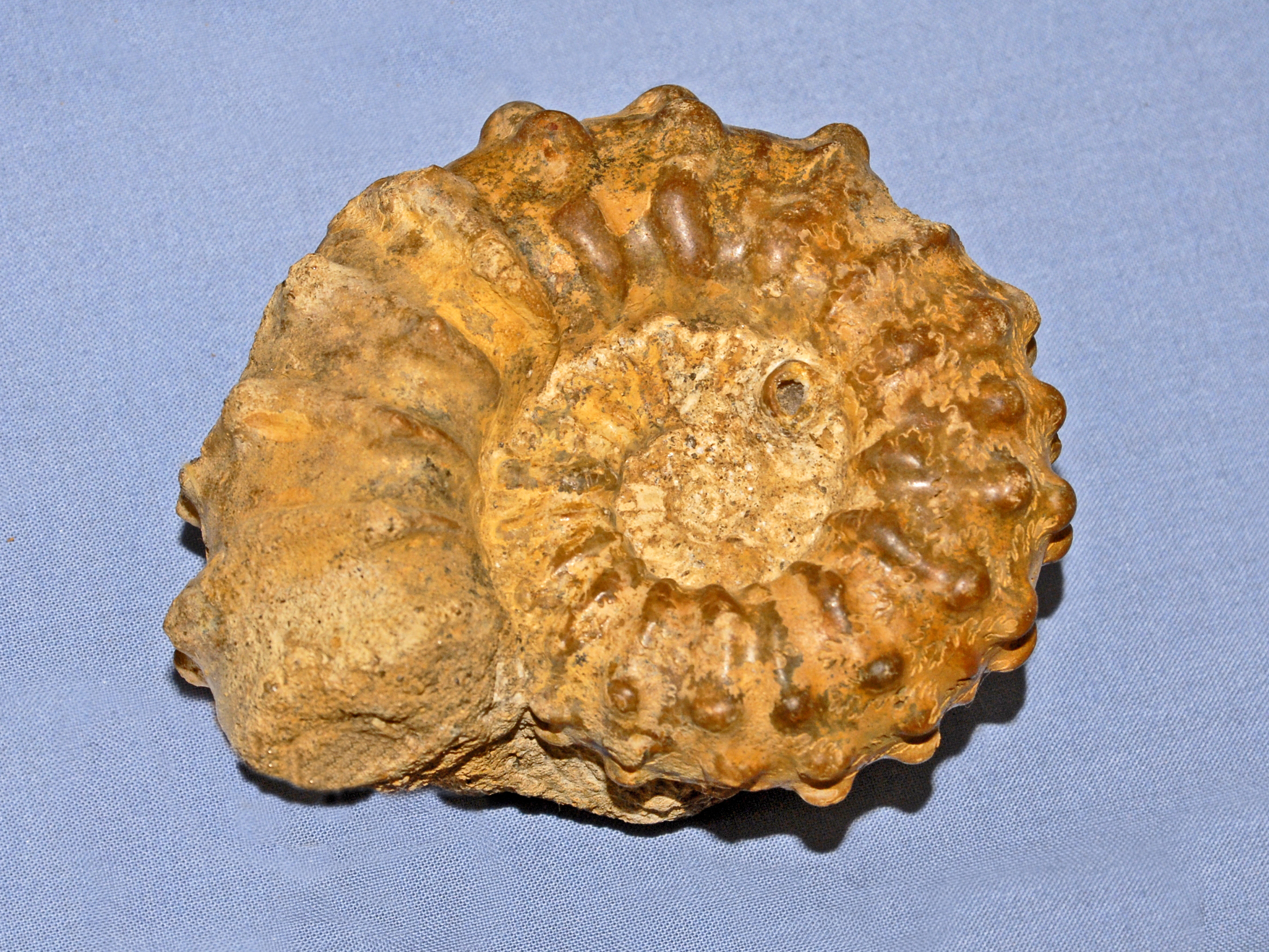 Fossil of Mammites nodosoides from Madagascar